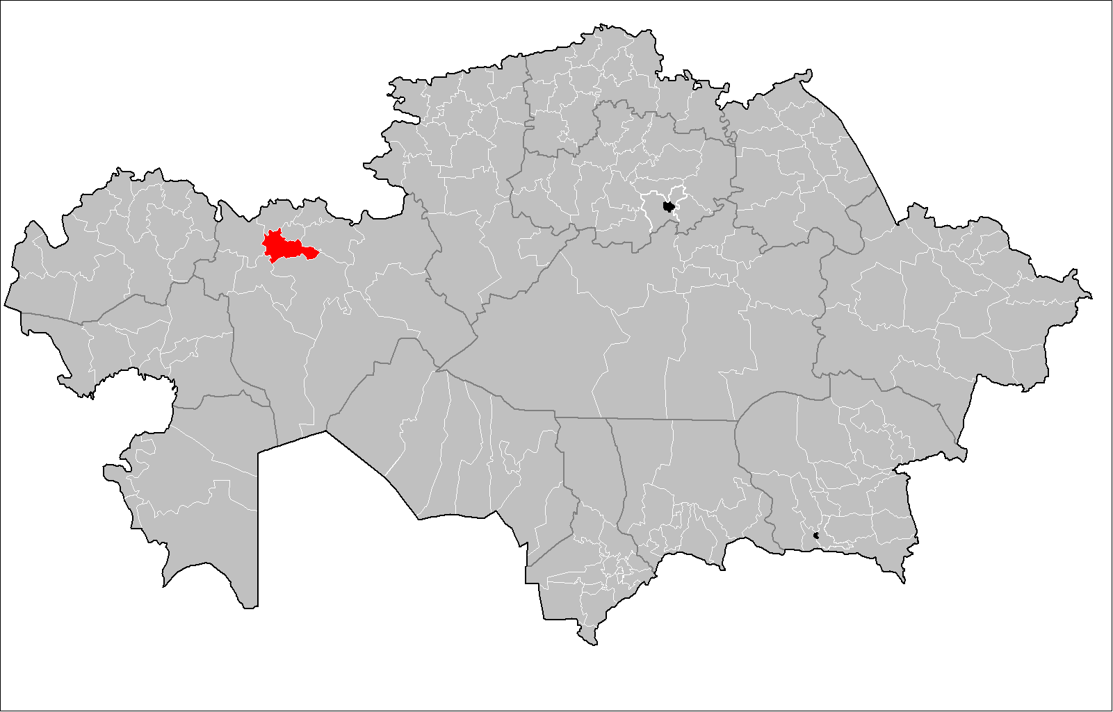 Map of the rayons of Kazakhstan. Created by Rarelibra 16:49, 3 August 2007 (UTC) for public domain use, using MapInfo Professional v8.5 and various mapping resources.